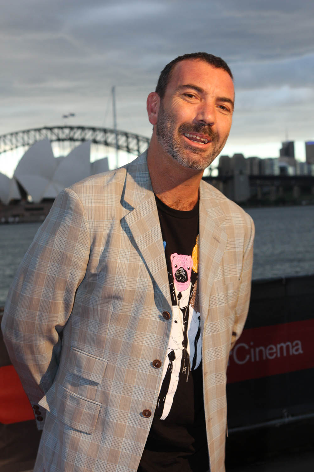 Paul Mac at My Week With Marilyn To Open St. George Openair Cinema